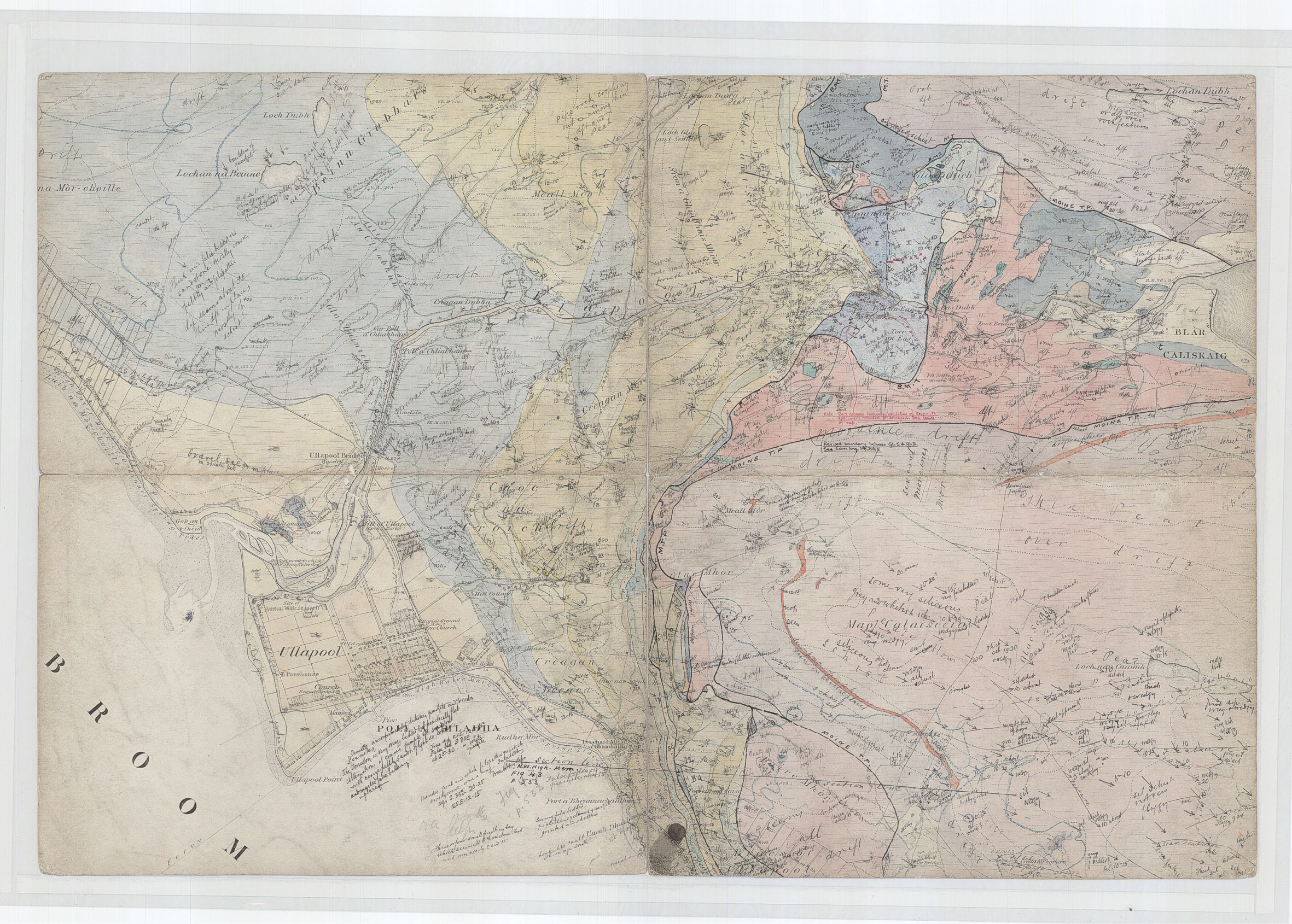 old field geological map of the region around Ullapool